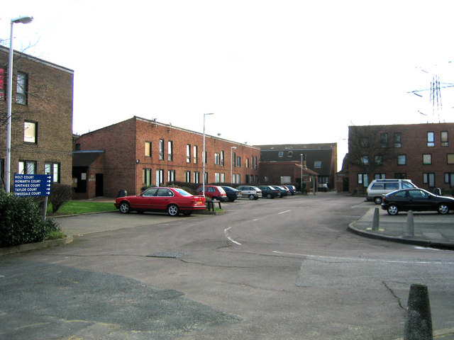 A residential court, Clays Lane Community, Feb 2007 Some of the tenants of this pleasant Peabody Trust estate have taken alternative accommodation - but many remain. This is an example of mid 20th century social housing which accommodated car ownership. The Olympic Velodrome will be behind the photographer. The Olympic Village will be the other side of Clay Lane, behind this court.